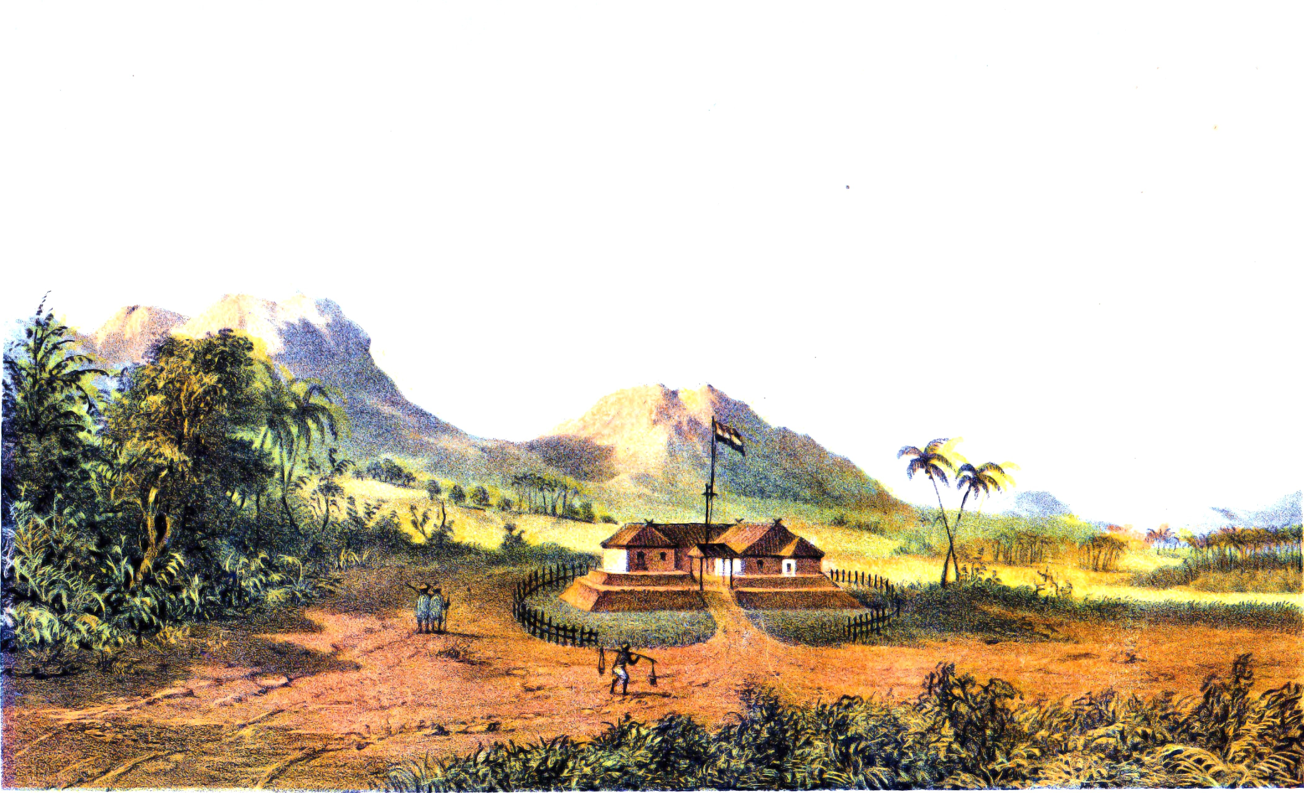 Nederlands fort te Borneo